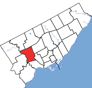 York South-Weston in relation to the other Toronto ridings (2015 boundaries)